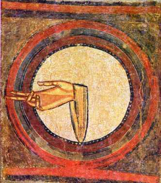 Detail of the vault of the apse of Sant Climent de Taüll. Fresco transferred to canvas. Museu Nacional D'Art de Catalunya, Barcelona, Spain.